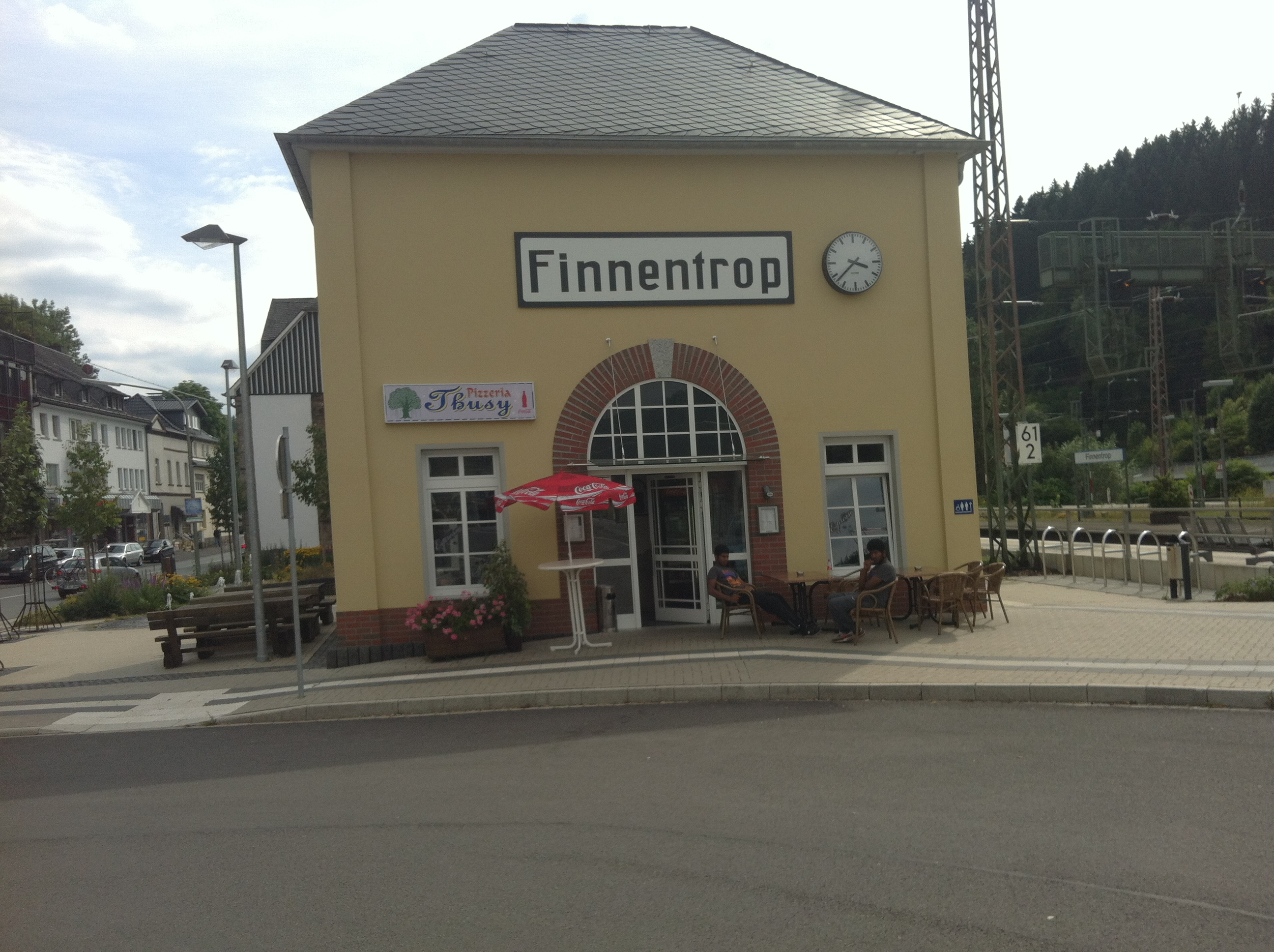 Bahnhof Finnentrop, fotografiert am 15.08.2013